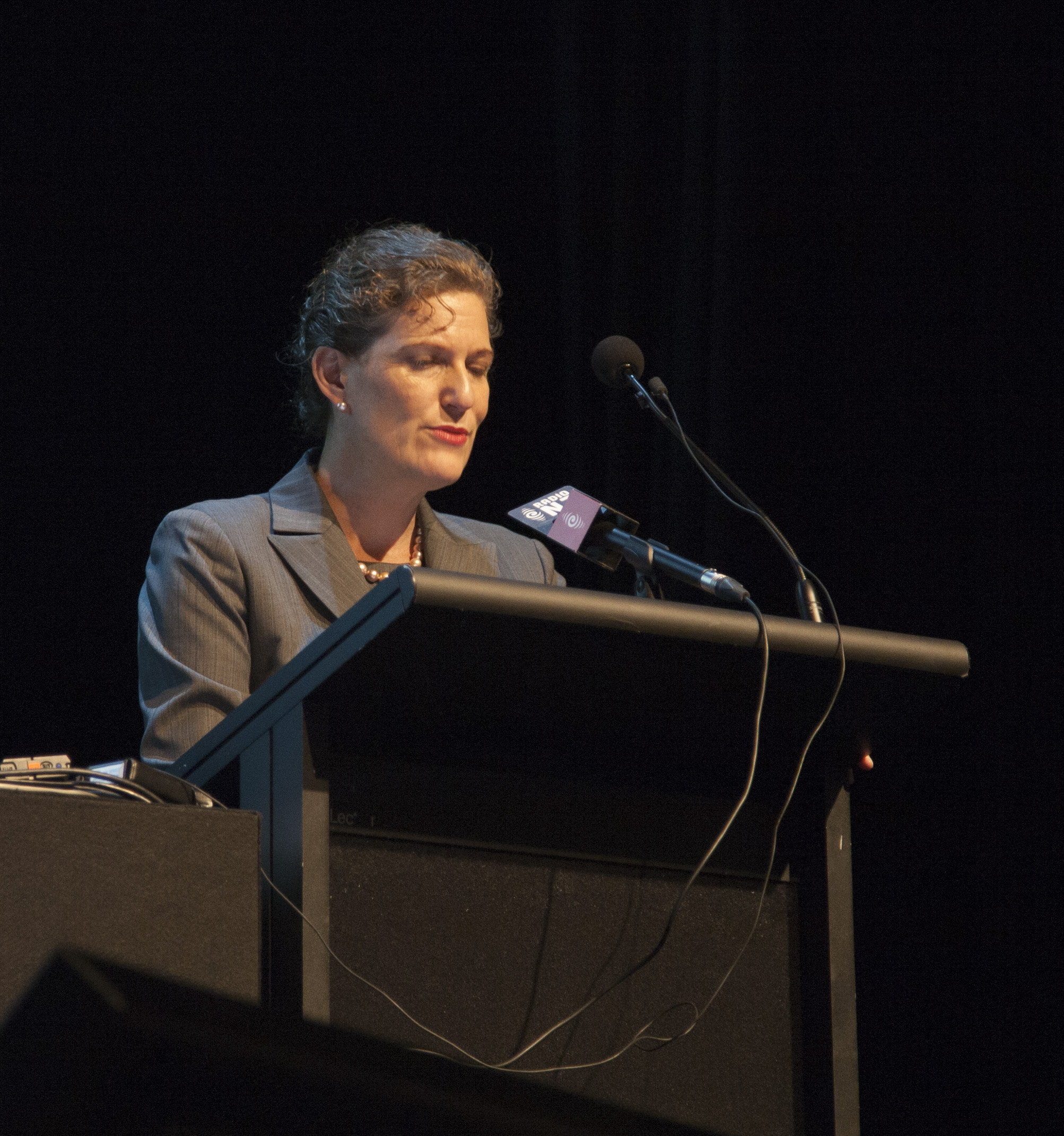 Rebecca Kitteridge, Director of Security for New Zealand, at Enabling Digital Identity and Privacy in a Connected World, aka #idnz2015.